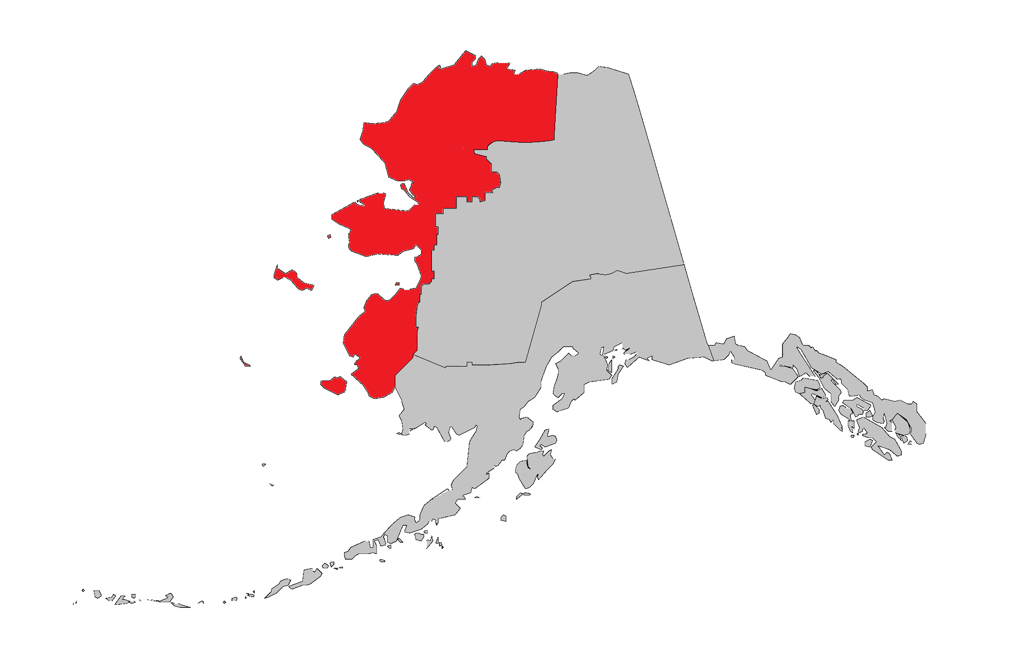 A map of the Second Judicial District (also refered to as Division #2) in red. Based on "Map of boroughs and census areas" av cmrivers.